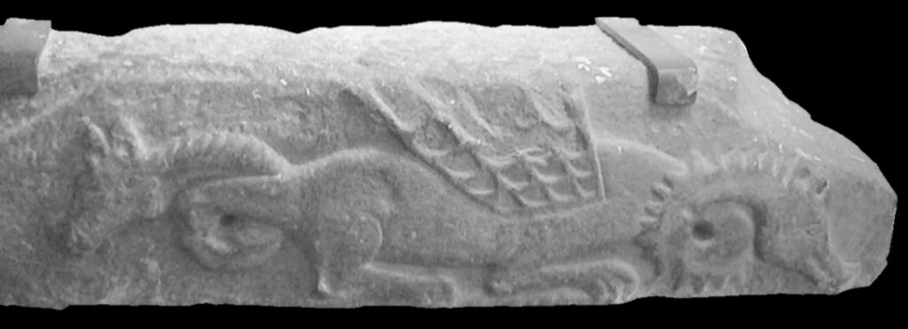 Representation of an amphisbaena (two-headed serpent) on a medieval relief (Rock of Cashel Museum, Ireland)